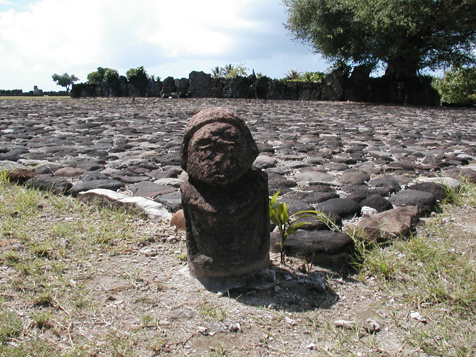 View of the ancient marae Taputapuatea on the island of Ra'iatea, French Polynesia.